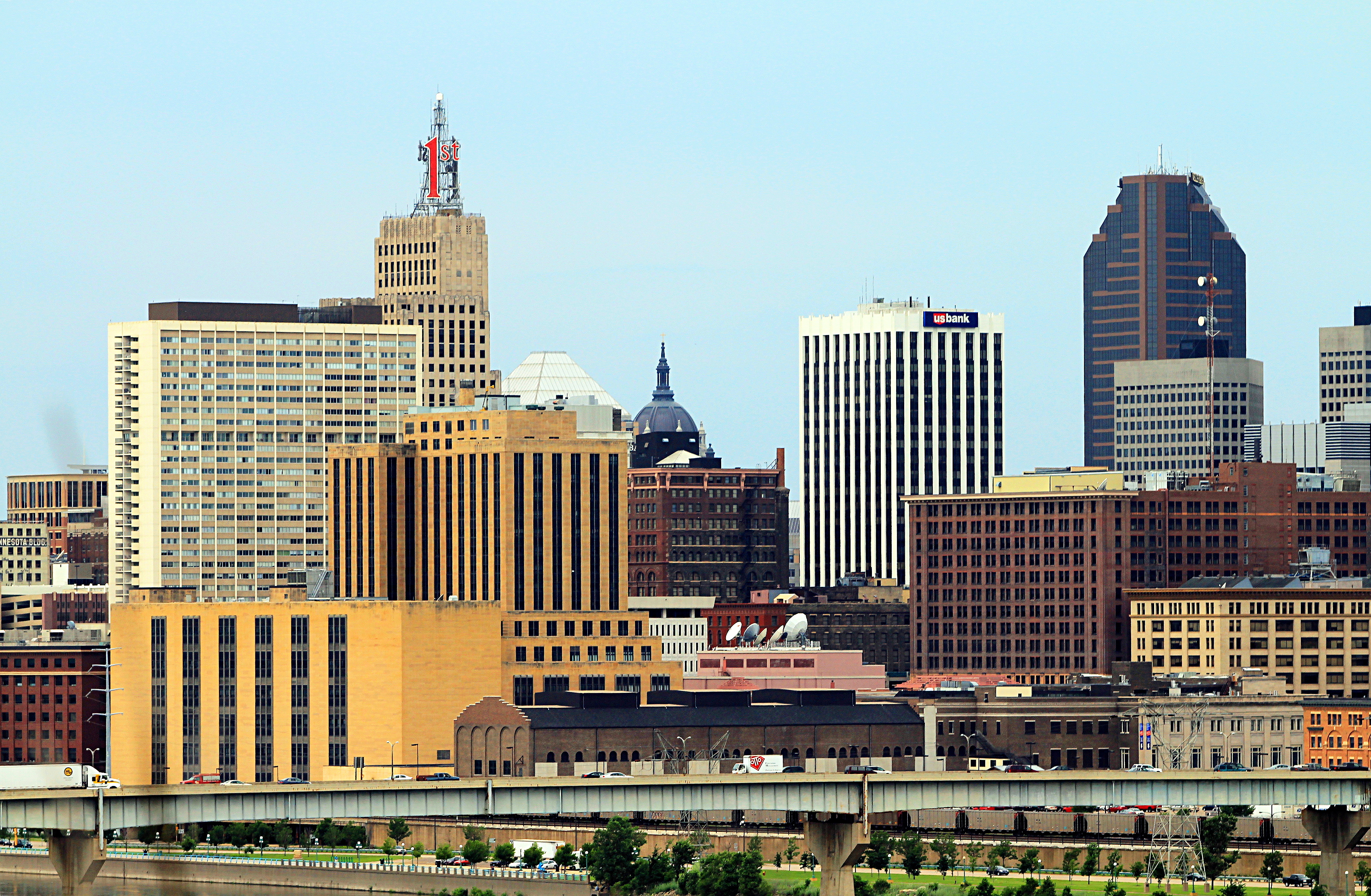 Hmm. This will be an interesting shot within the next two years, since the Lafayette Bridge is slated to be torn down in 2011 and replaced. In the interim, there should be a fairly clear shot at the Saint Paul Union Depot and the UP/CP tracks right in front of it. The depot is set to reopen sometime in 2012, though the new bridge might be progressing pretty well by that point.